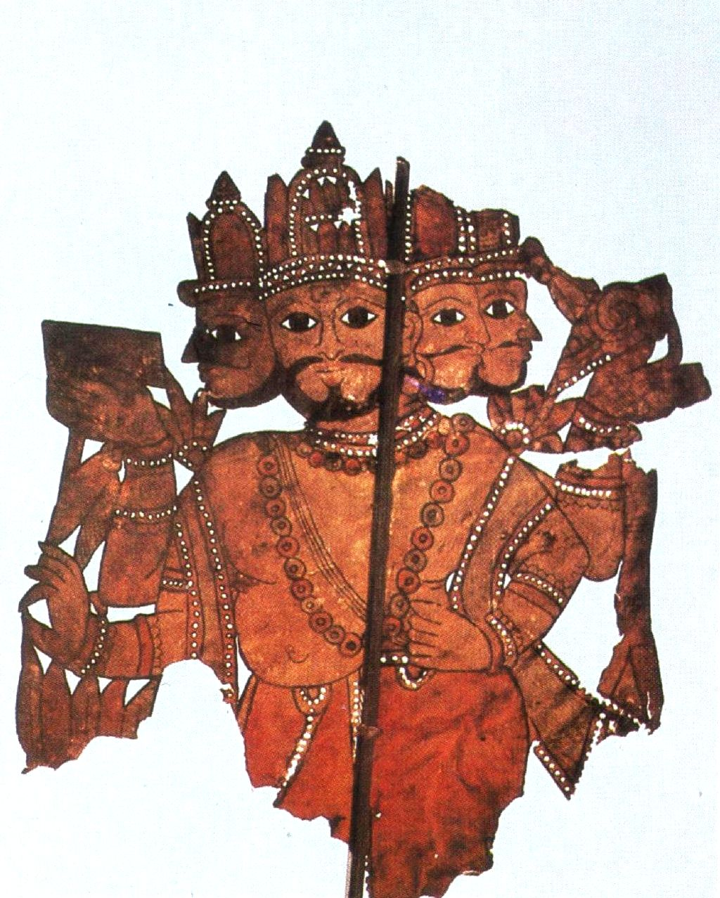 Brahma, shadow puppet from Pinguli village, Sawantwadi, Maharashtra